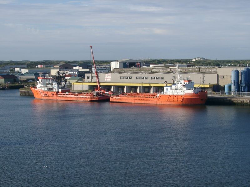 Platform Supply Vessels at Port of Ijmuiden, Netherlands